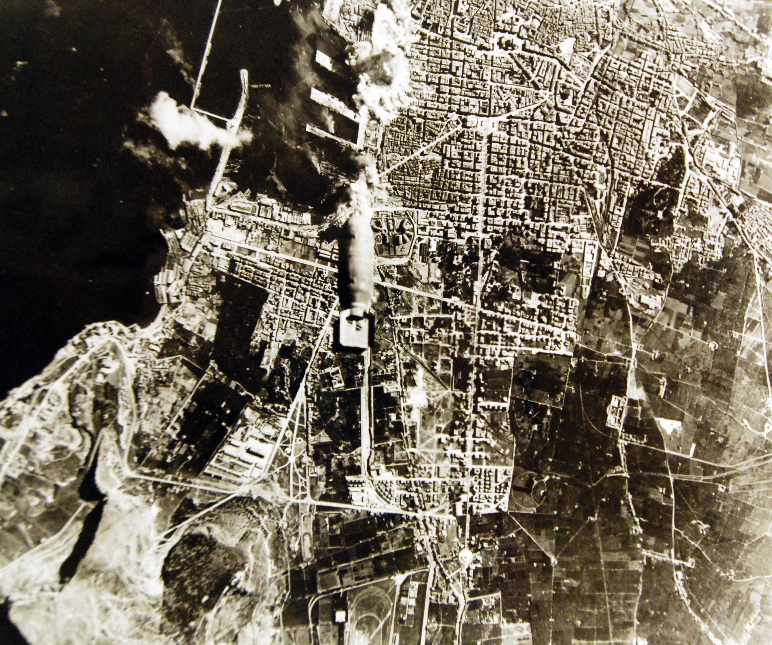 Lot 11631-1: Operation Husky, July 1943. Flying through an intense barrage of anti-aircraft fire U.S. Army Air Force Flying Fortress B-17 fought off an attacking formation of enemy planes and accomplished their mission which was to bomb shipping and harbor installations at Palermo, Sicily. A bomb can be seen on its way while bursts from preceding bombs have wrecked destruction below. U.S. Army Air Force Photograph. Courtesy of the Library of Congress, also as LC-USW33-020990-C . (2016/05/27).